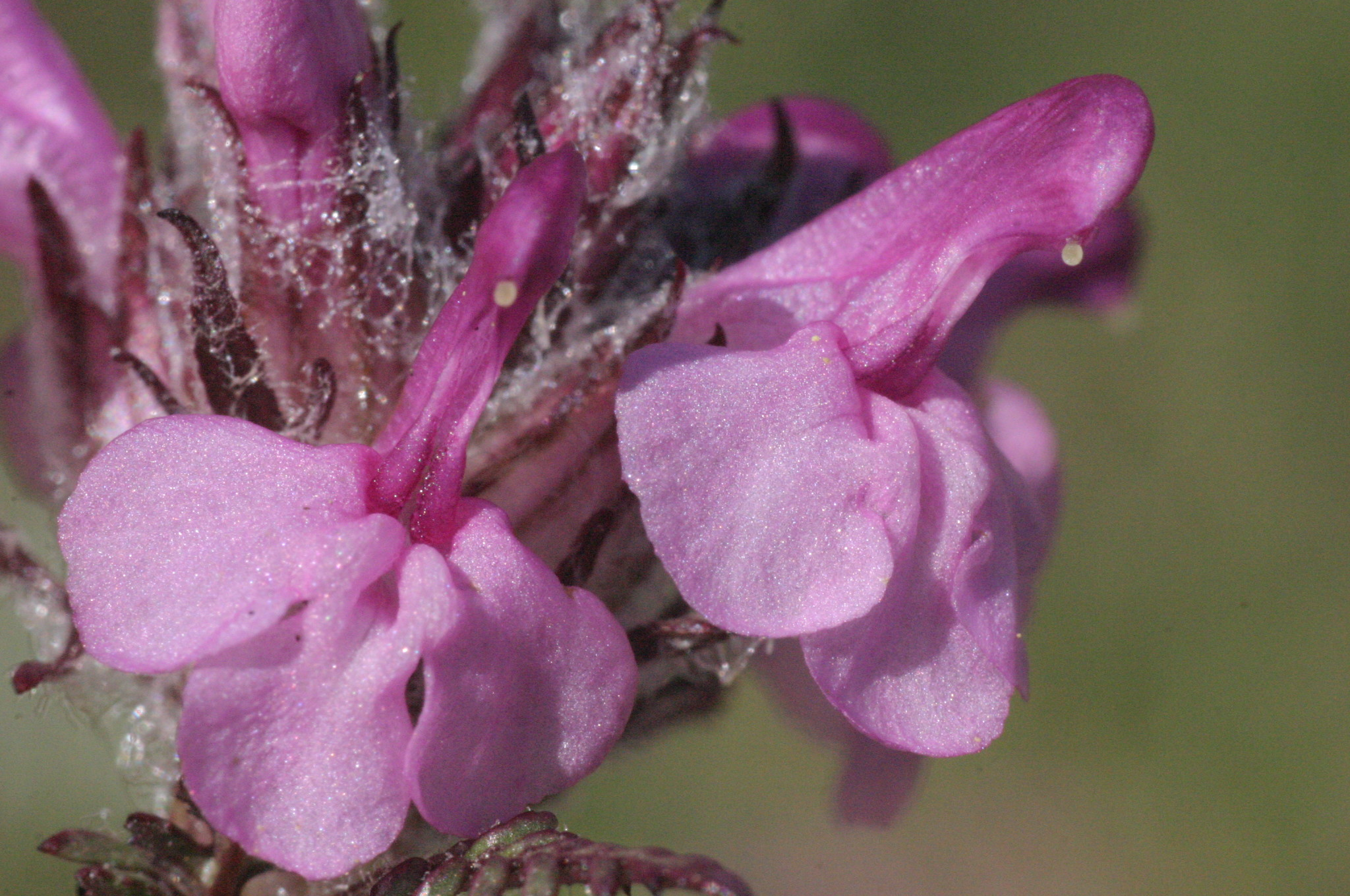 Pedicularis rosea